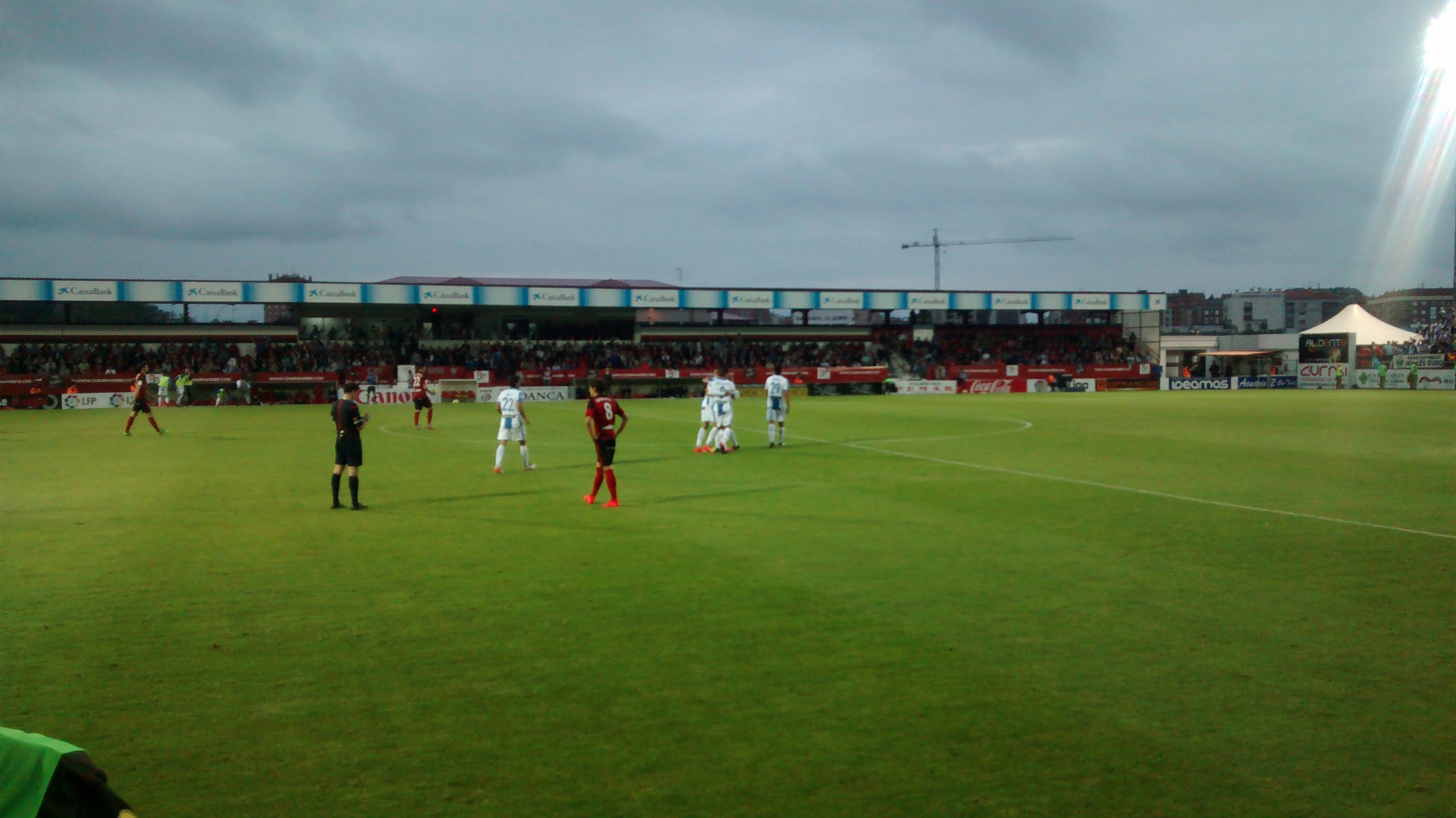 Players of CD Leganés celebrate with Pablo Insua his goal against Mirandés (0:1)